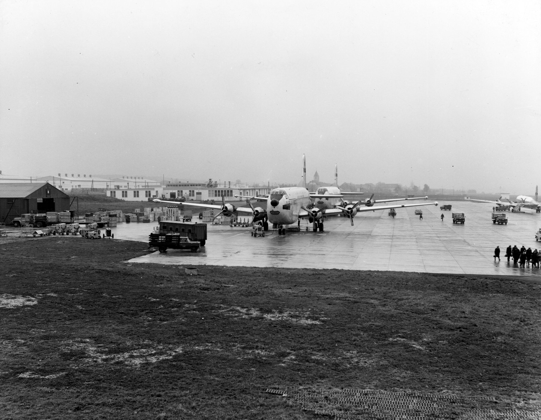 U.S. Air Force Douglas C-124C Globemaster II aircraft (s/n 52-1060 in front) unload their cargo at Phalsbourg air base, France, as part of "Operation Stair Step" during the 1961 Berlin crisis. Federalized Air National Guard units, equipped with F/RF-84Fs and F-86Hs, moved into five airfields in northeastern France where they bolstered NATO forces from November 1961 to August 1962 before returning home.